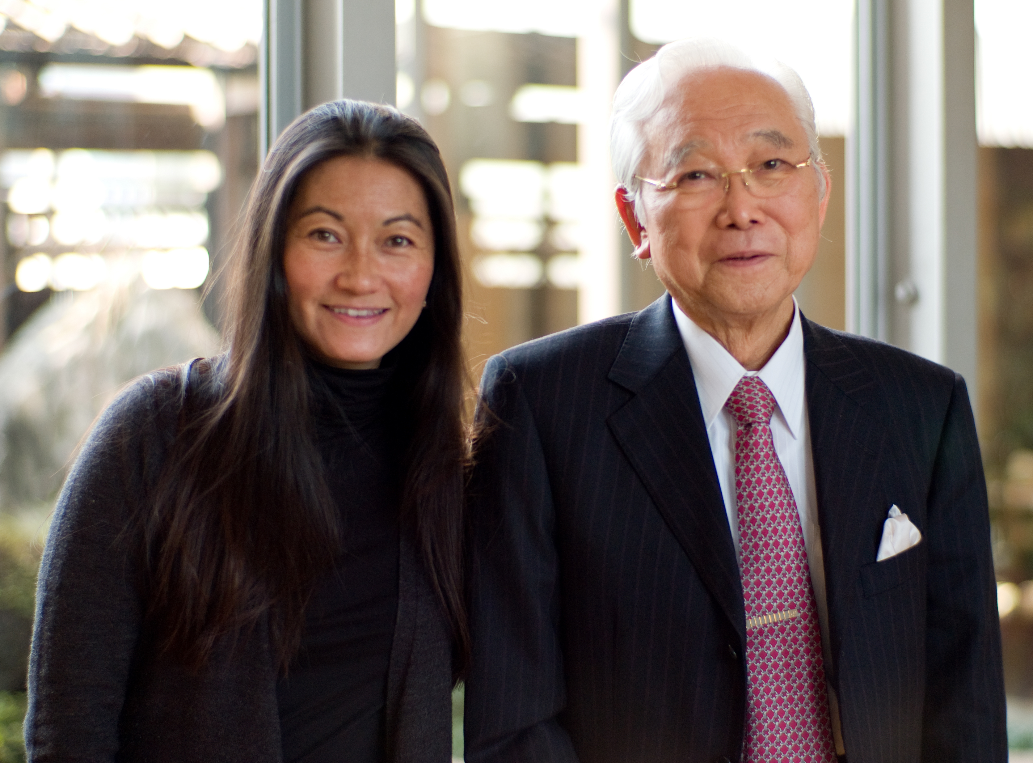 Daughter and father. Yukiko Ogasawara (小笠原 有輝子 Ogasawara Yukiko) is the president and Toshiaki Ogasawara (小笠原 敏晶 Ogasawara Toshiaki) the publisher and chairman of The Japan Times.